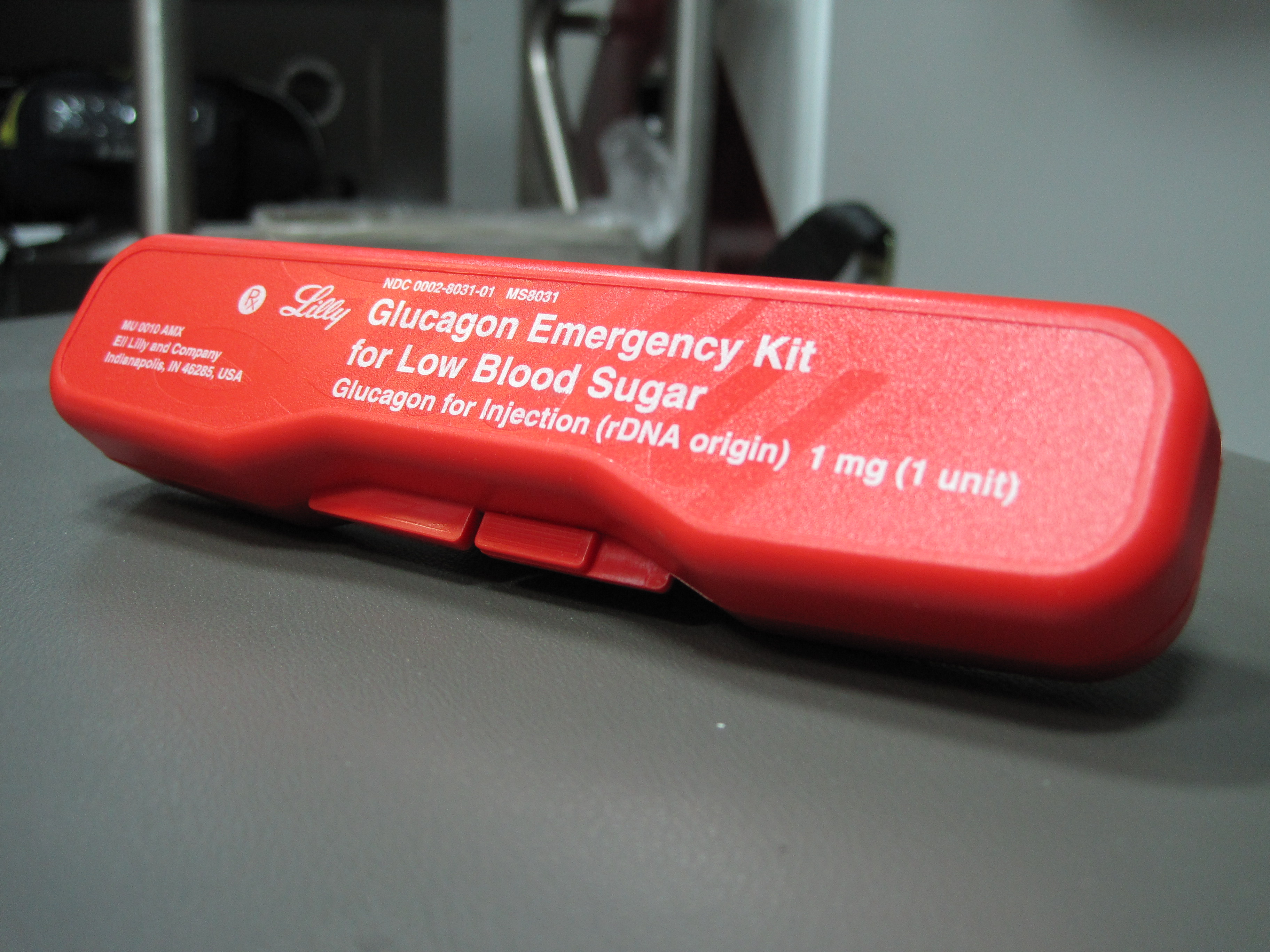 Outer case of a Glucagon preparation, for intramuscular injection.